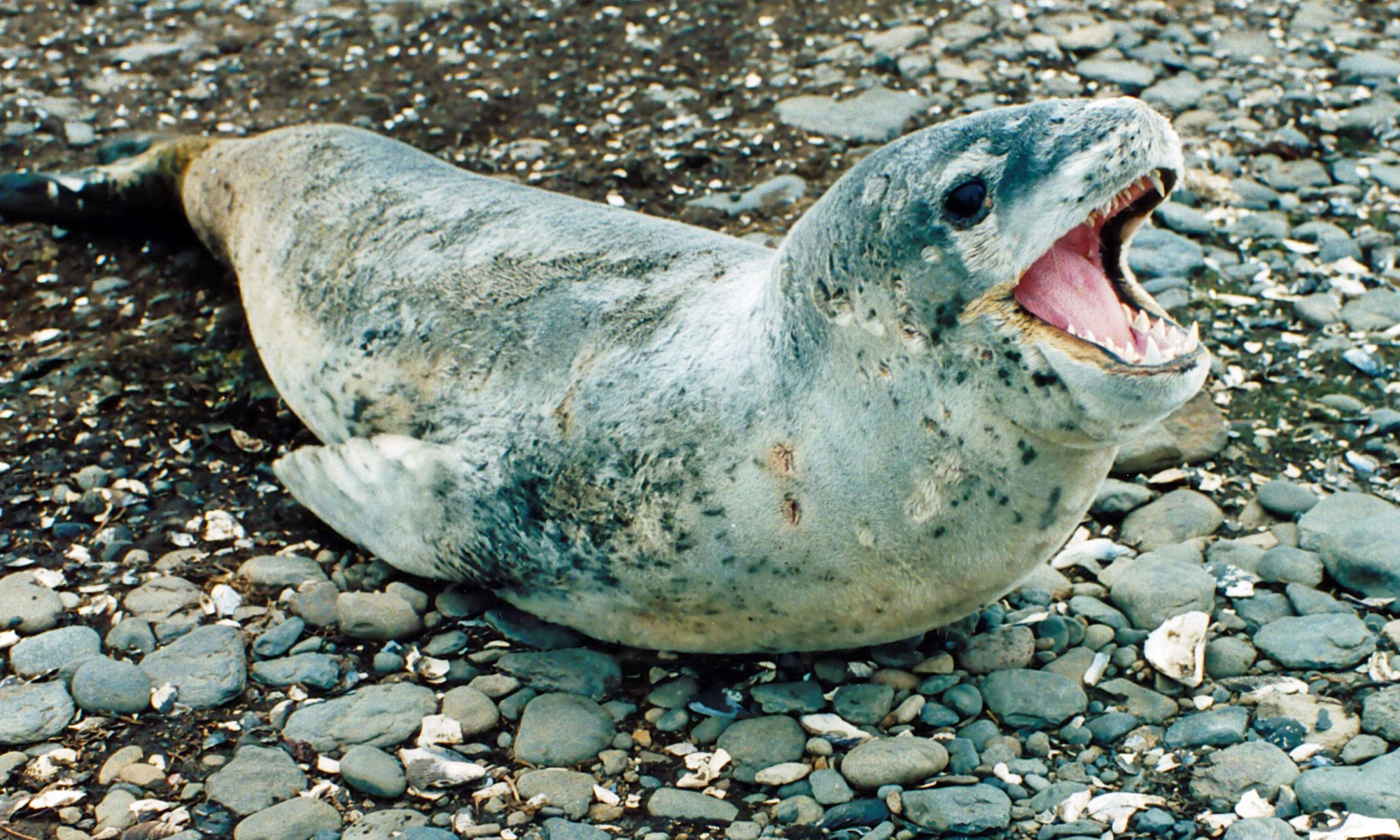 Leopard seal (Hydrurga leptonyx) scan de photo : B.navez - Kerguelen - 1999